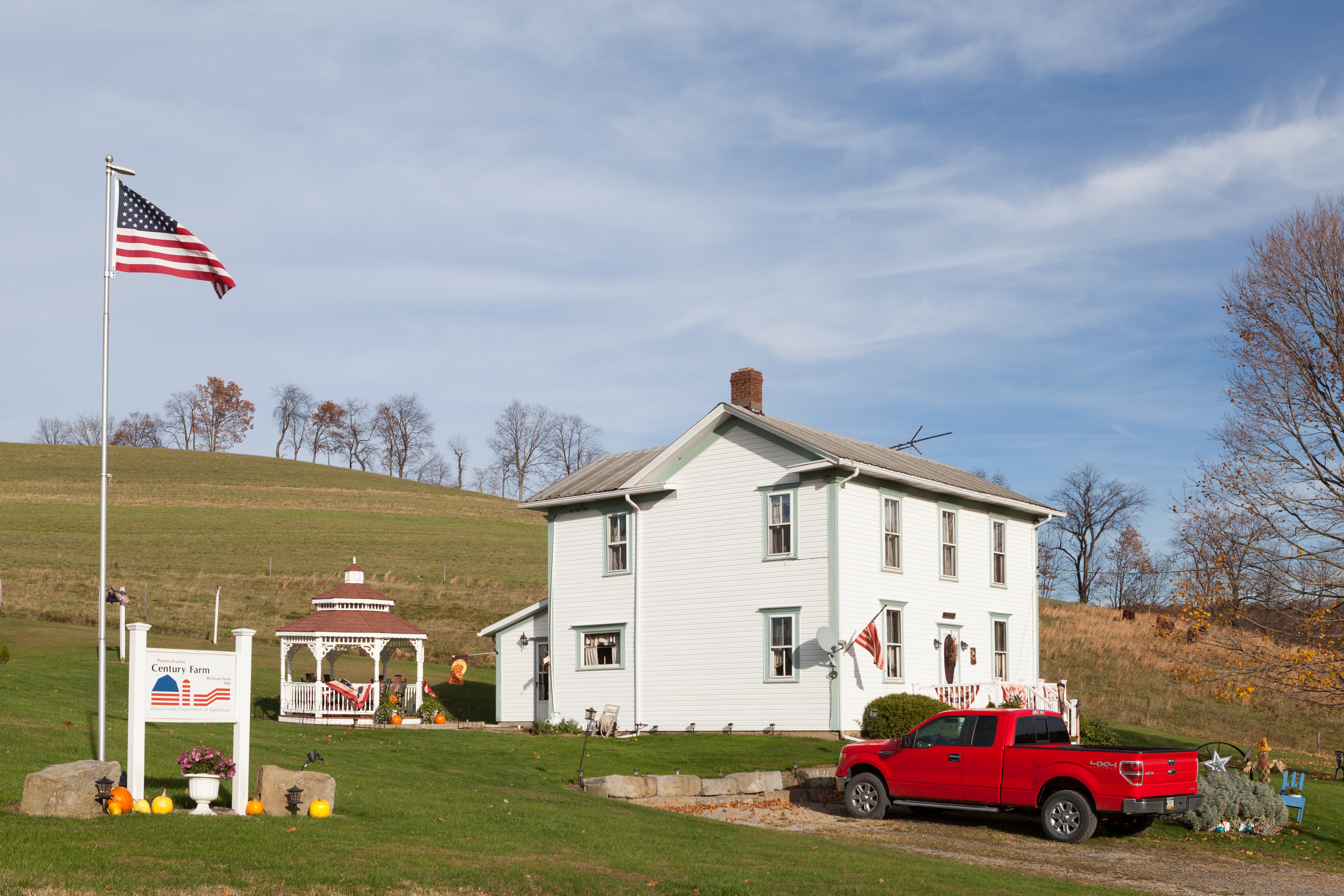 The McLean Farm (1866), on Atwood Sugar Camp Road in Atwood, Pennsylvania. A Pennsylvania Century Farm.